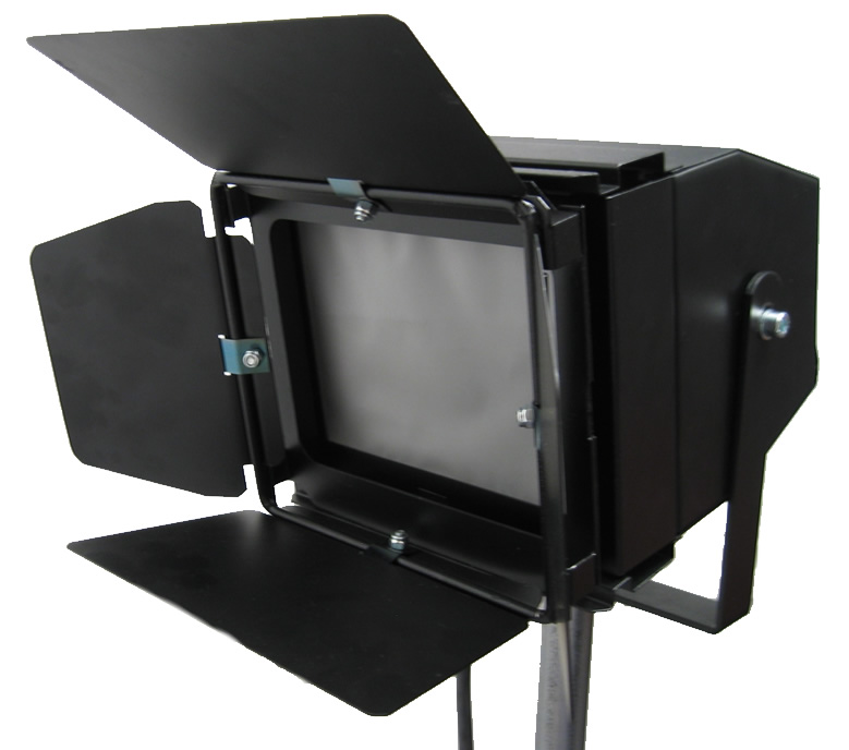 Spotlight with barn doors